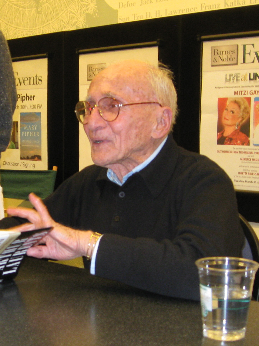 Arther Laurents (photo 3/24/2009, New York)